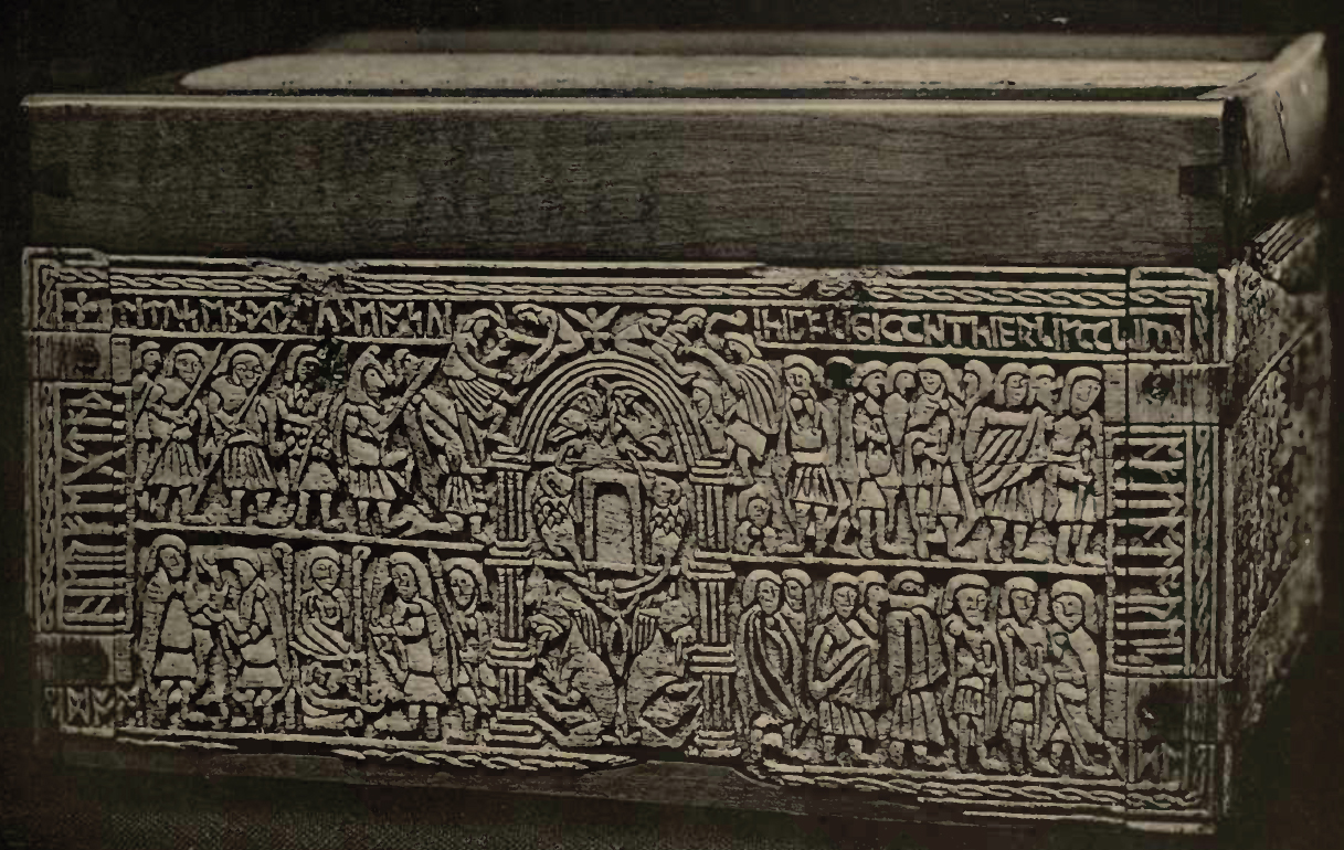 The back panel of the Franks Casket.